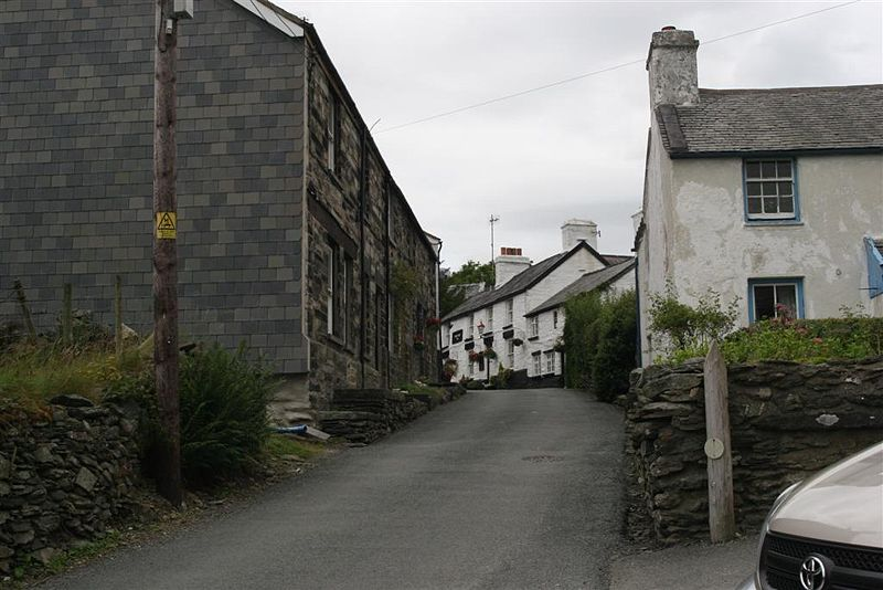 Capel Garmon, Conwy